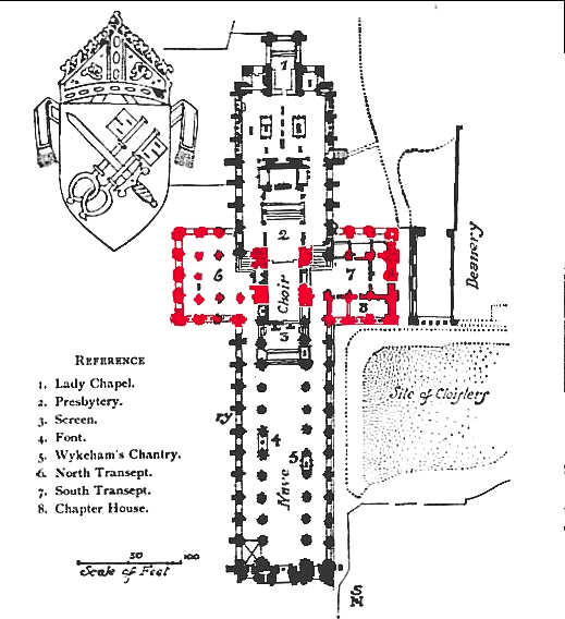 Winchester Cathedral, Norman parts red coloured